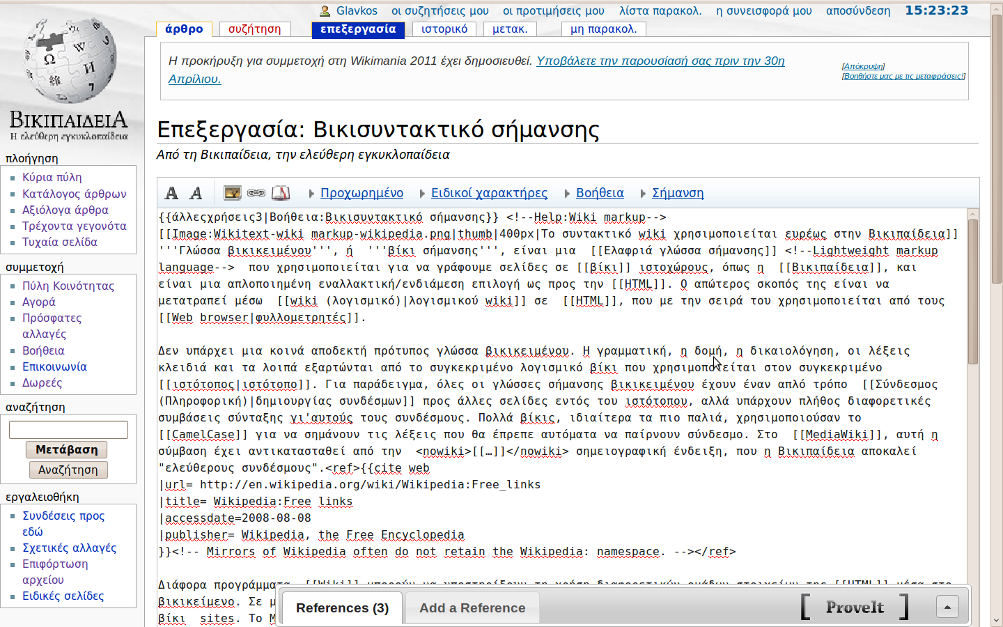 Printscreen icon for wiki-editing